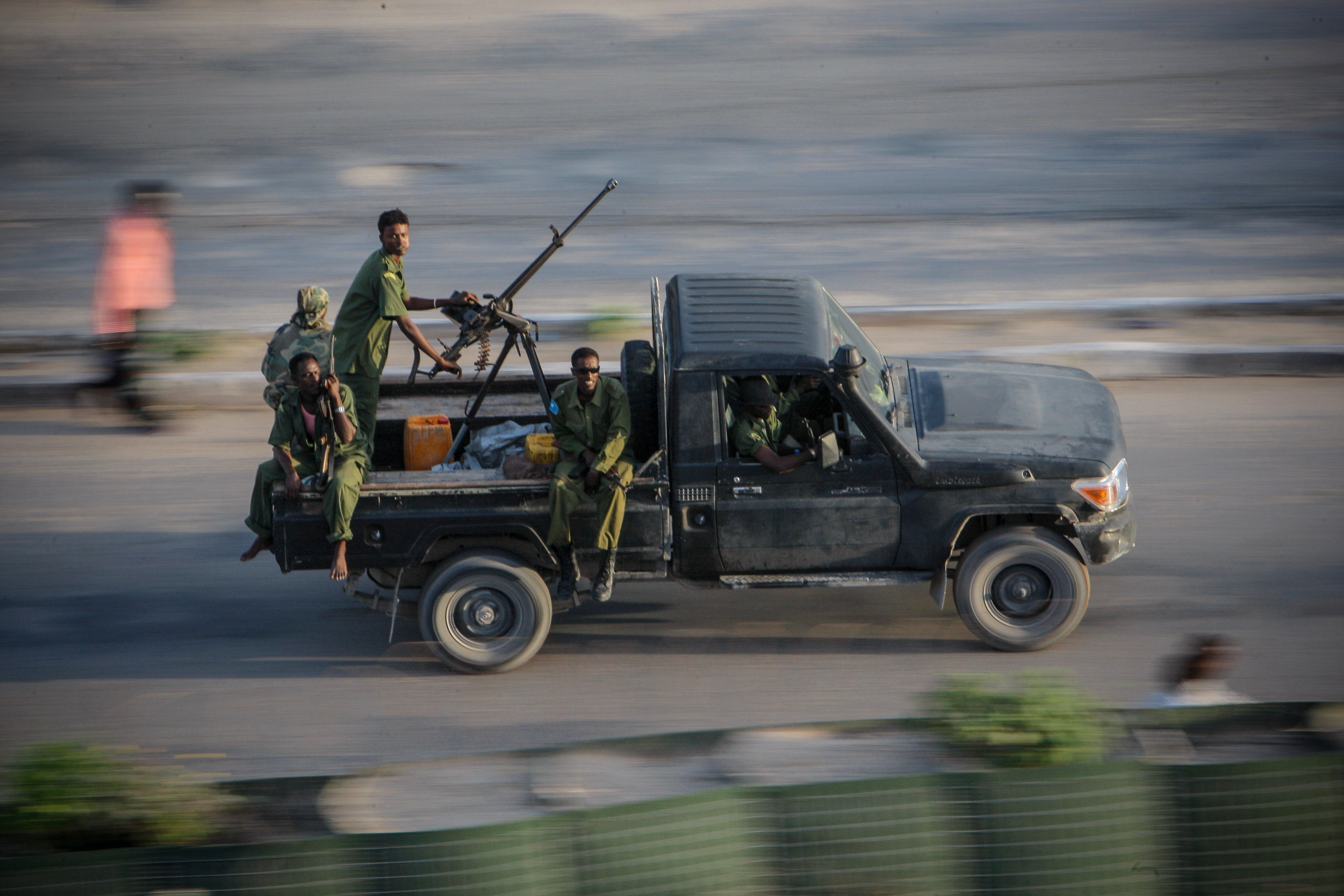 Somali National Army (SNA) soldiers man a mounted machine gun 06 August 2012, as their technical vehicle races along a road opposite the parliament building in the Somali capital Mogadishu. August 06 is the one-year anniversary marking the date that Al-Qaeda-affiliated extremist group Al Shabaab withdrew from fixed positions in Mogadishu after having steadily lost territory to forces of the Transitional Federal Government (TFG) backed by troops from the African Union Mission in Somalia (AMISOM), ending their draconian stranglehold on the capital and its population. In the last 12 months, residents of Mogadishu have enjoyed the longest period of relative peace in their city for 20 years, with re-building and re-generation work taking place all over the city and businesses and a semblance of normal daily life returning to the now busy streets of the war-shattered Horn of Africa capital. AU-UN IST PHOTO / STUART PRICE.